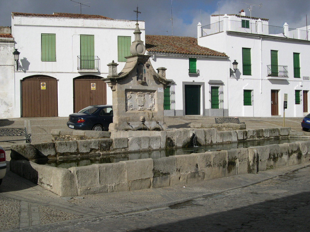 The Fountainilla.